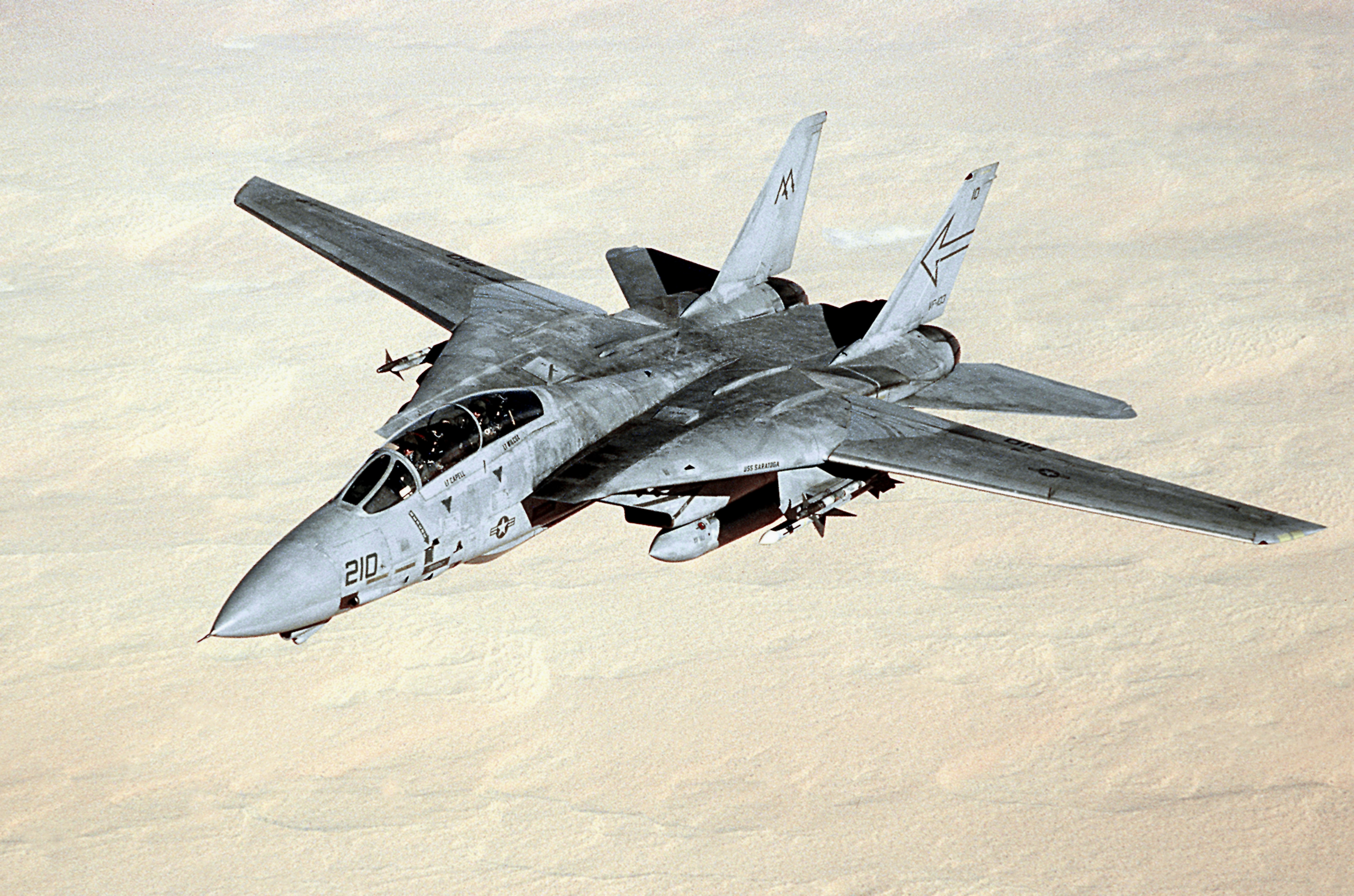 A U.S. Navy Grumman F-14B Tomcat from fighter squadron VF-103 Sluggers prepares for refueling from a U.S. Air Force tanker on 4 February 1991 during the 1991 Gulf War. The aircraft is armed with AIM-7 Sparrow and AIM-9 Sidewinder missiles. VF-103 was assigned to Carrier Air Wing 17 (CVW-17) aboard the aircraft carrier USS Saratoga (CV-60) for a deployment to the Mediterranean and the Red Sea in support of operations "Desert Shield" and "Desert Storm" from 7 August 1990 to 28 March 1991.